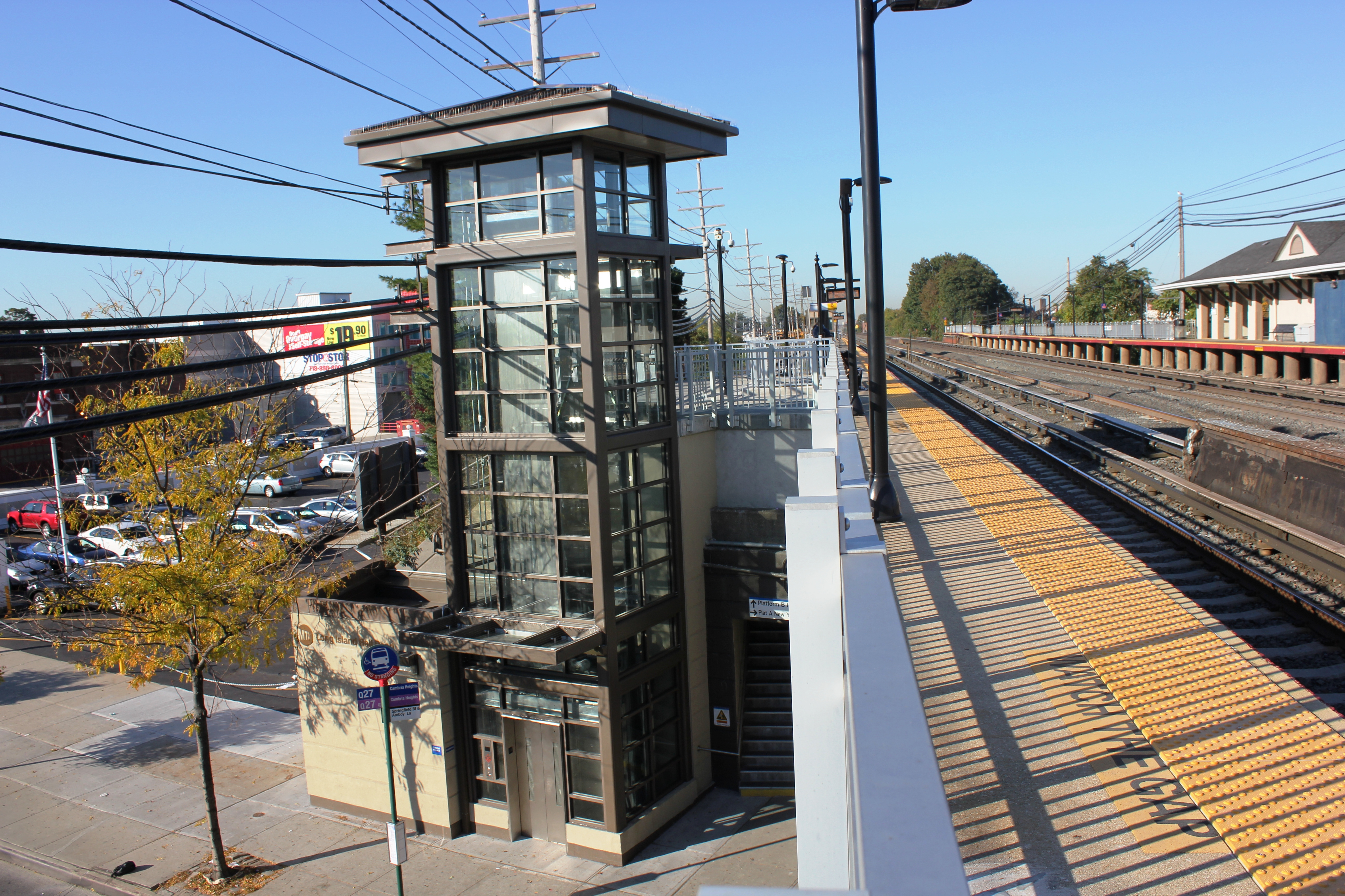 On October 30, 2013, MTA Long Island Rail Road President Helena E. Williams and Assemblywoman Barbara Clark unveiled the newly renovated and enhanced Queens Village LIRR Station. As a part of the project, workers have installed two new heavy duty elevators, one each serving the eastbound and westbound platforms. They also repainted the entire station building and added new signage and a new fire alarm system. The platform waiting room has been rehabilitated, and numerous improvements have been made throughout the complex, including replacement of platform railings, a new shelter shed, replacement of platform lighting, bird abatement devices, drainage and erosion control, and security cameras. Photo: MTA Long Island Rail Road / Poonam Punj